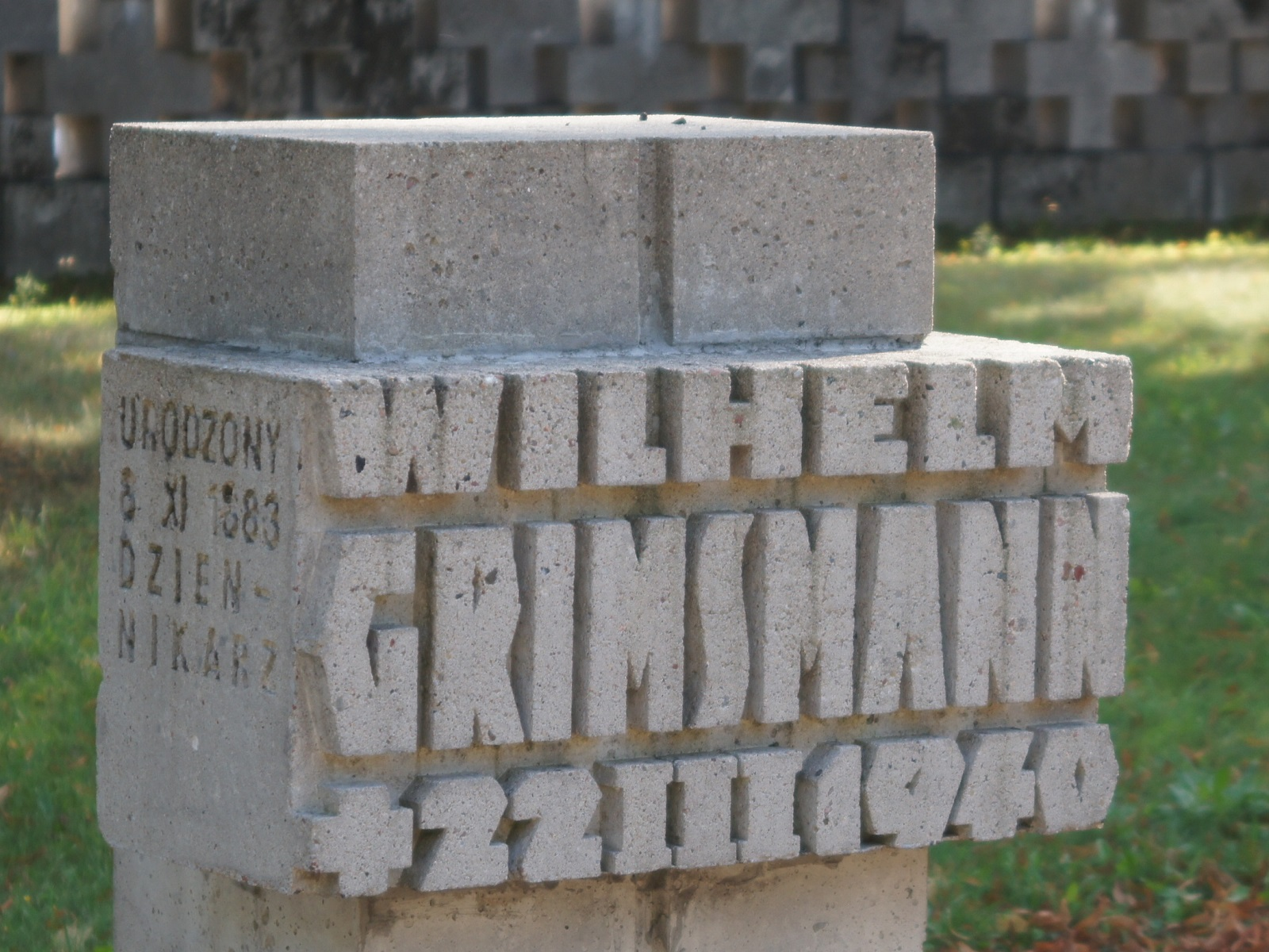 Wilhelm Grimsmann, grave, Zaspa Cemetery in Gdańsk